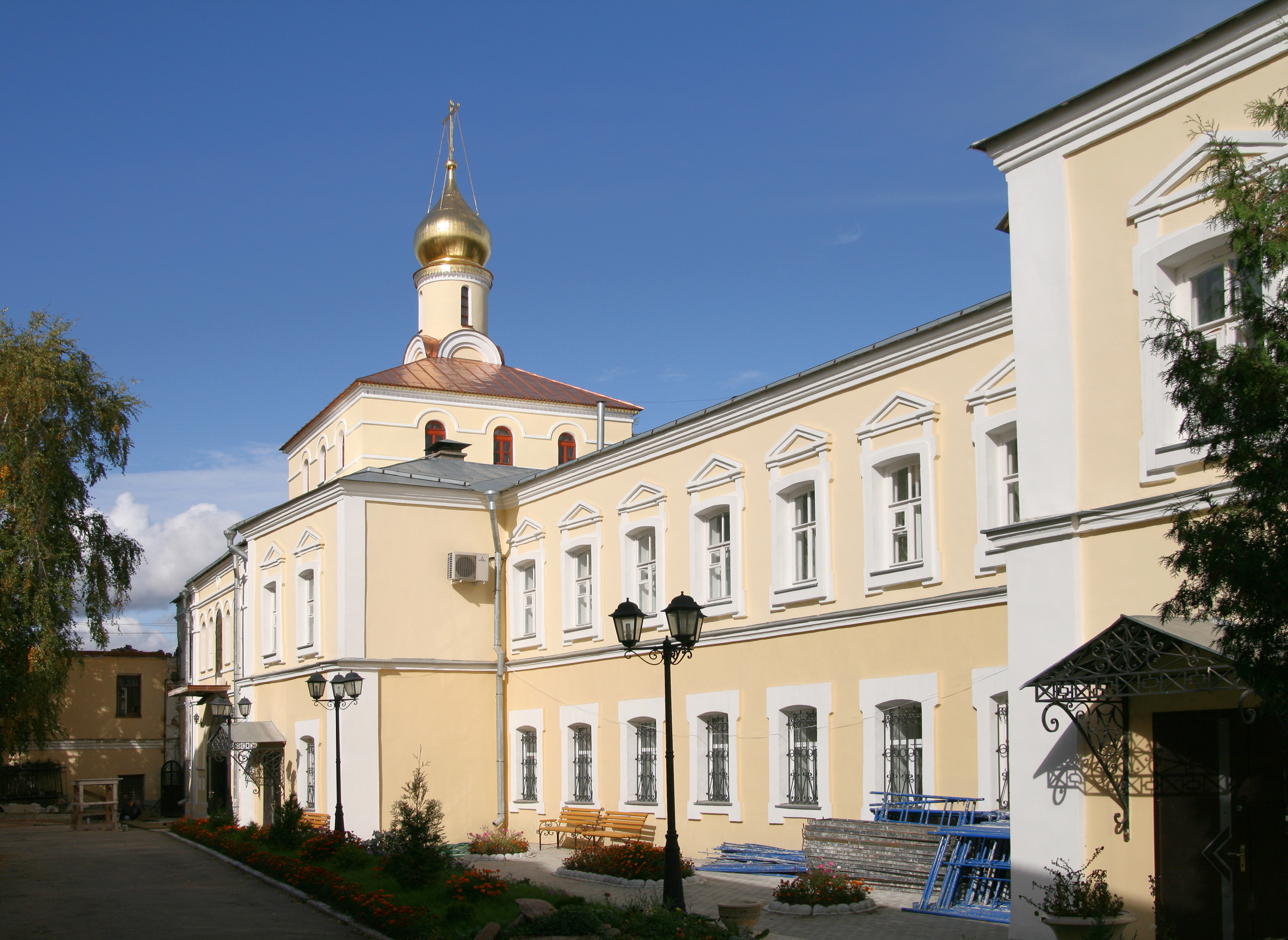 Saint John the Baptist gate church, XVII-XIX c and monk cells, Monastery of the Nativity of the Theotokos, Vladimir